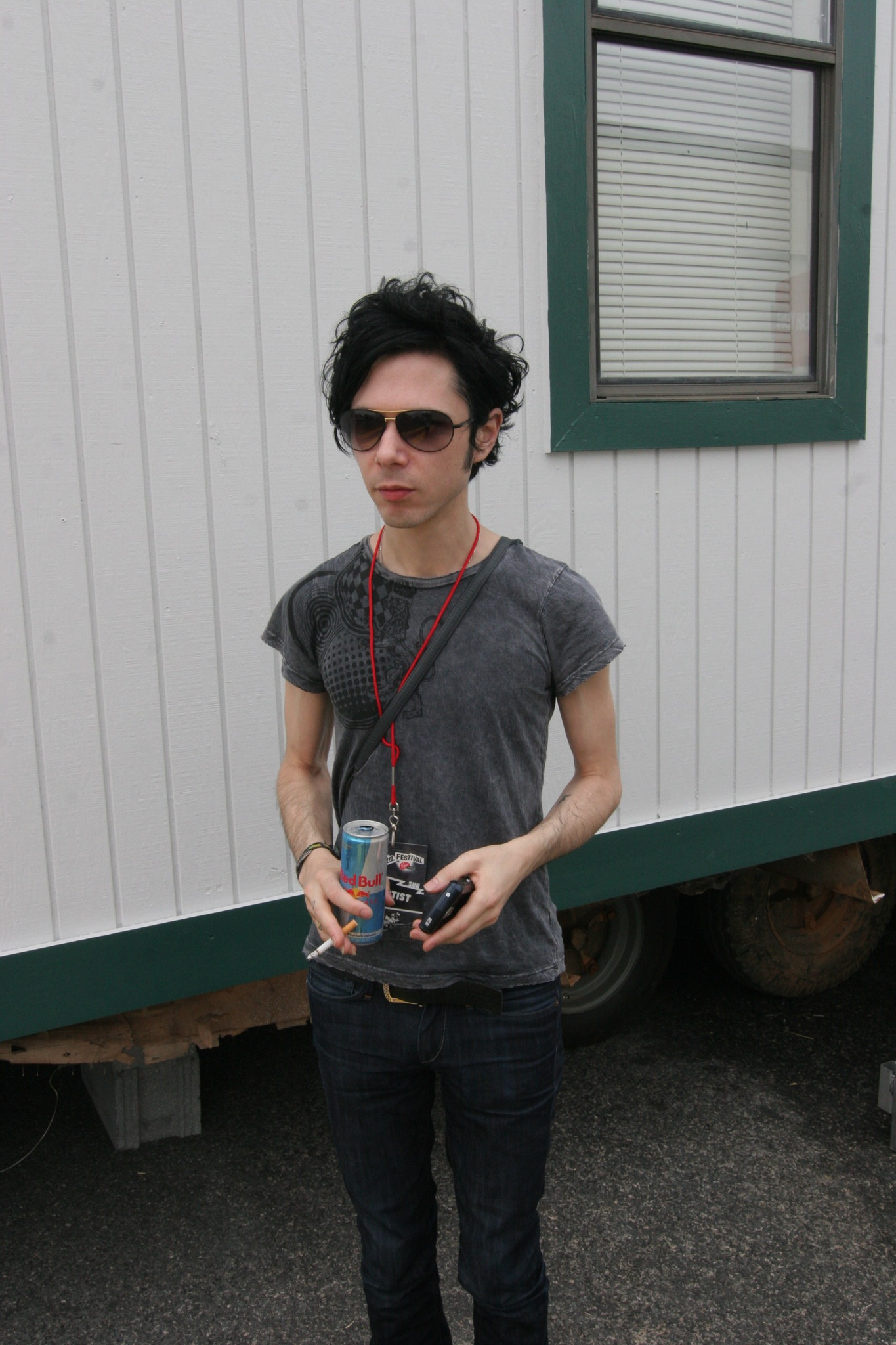 Nick Zinner standing outside at Virgin Festival 2007